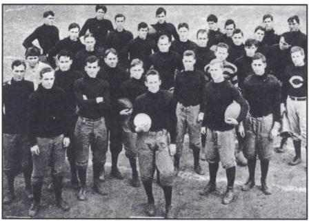 Team photo of the 1909 Arkansas Razorbacks (then Cardinals) football team.